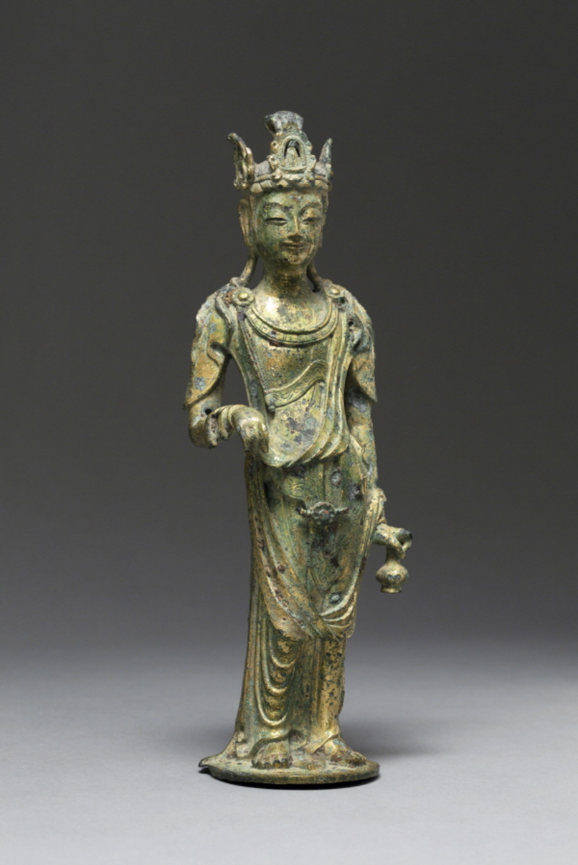 Statue of Gwaneum, 7c Baekje, Korea